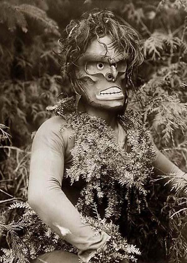 Dancer representing Paqusilahl/Bookwus/Bakwas ("man of the ground embodiment"), wearing a mask and shirt covered with hemlock boughs, representing paqus, a wild man of the woods.